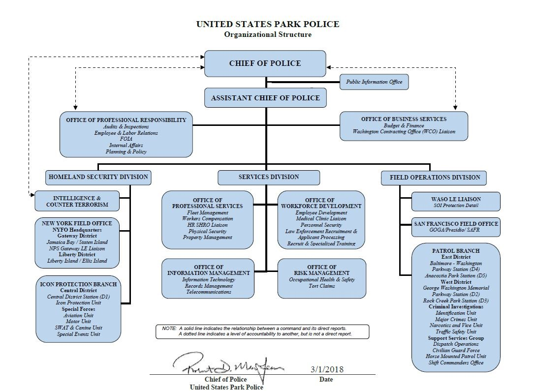 Organization Chart of the United States Park Police